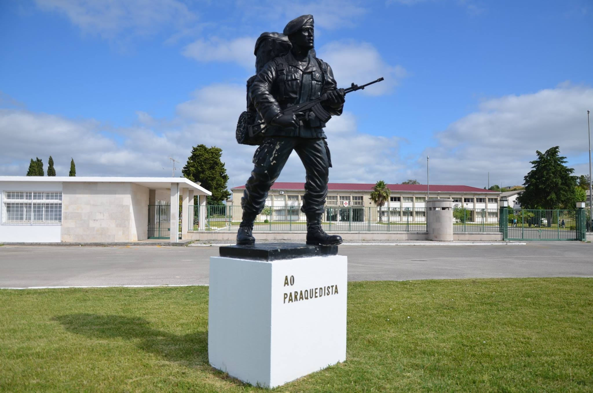 Portuguese Fallen Paratroopers' Memorial, in Tomar (Portugal)